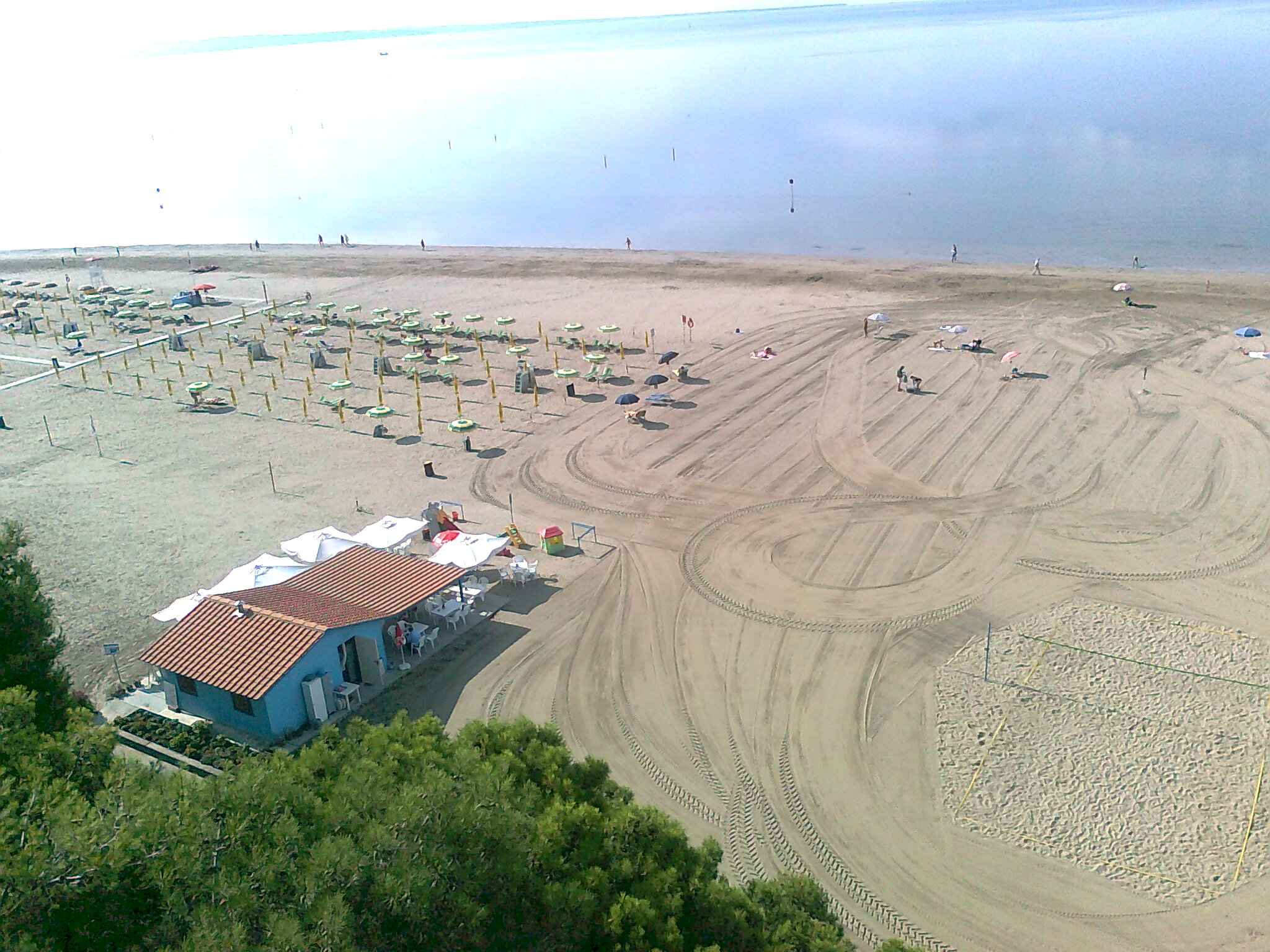 Grado (Italy). View of the Grado Pineta Beach.